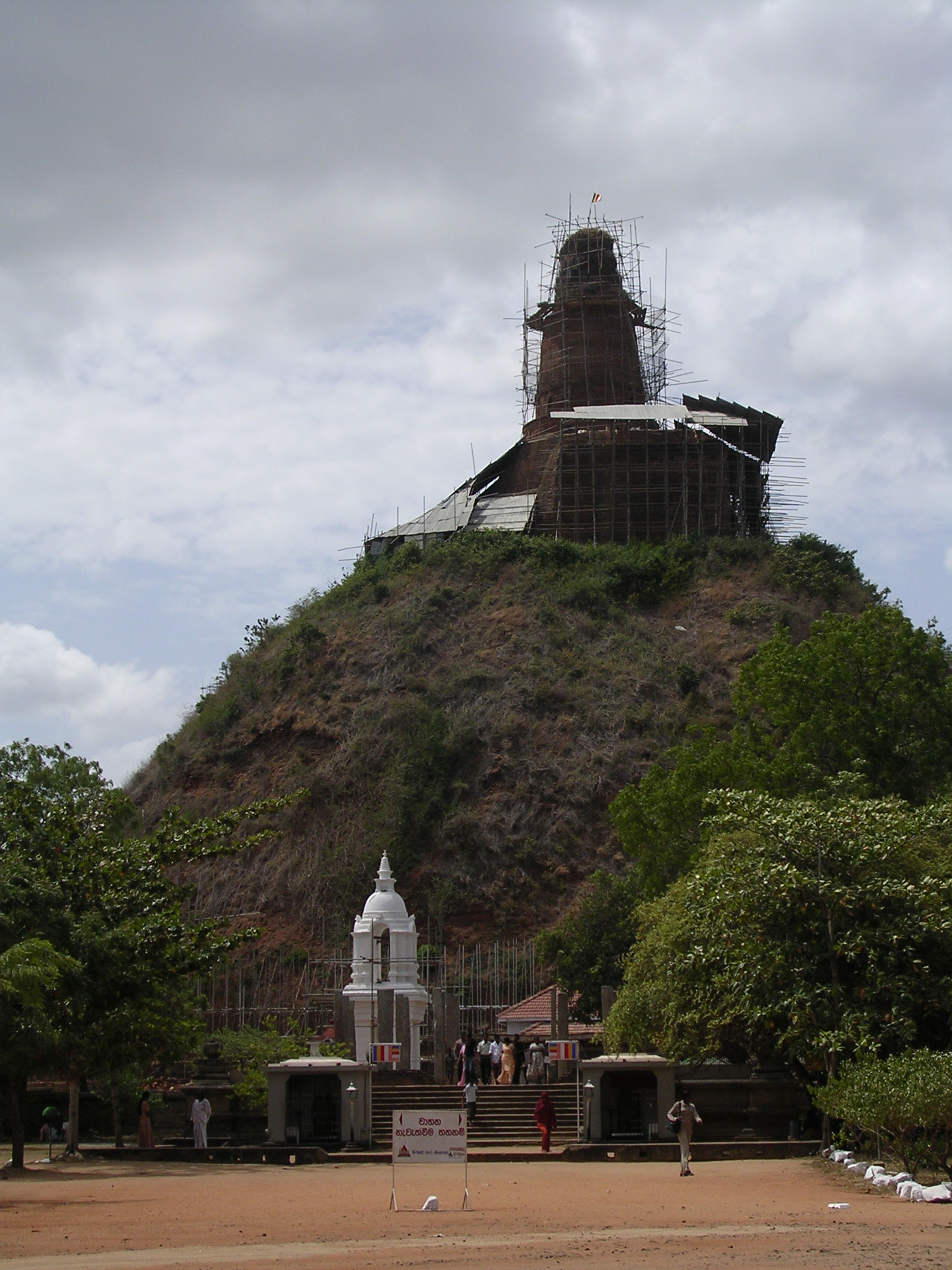 The Abayagiri Dagoba in Anuradhapura, Sri Lanka.